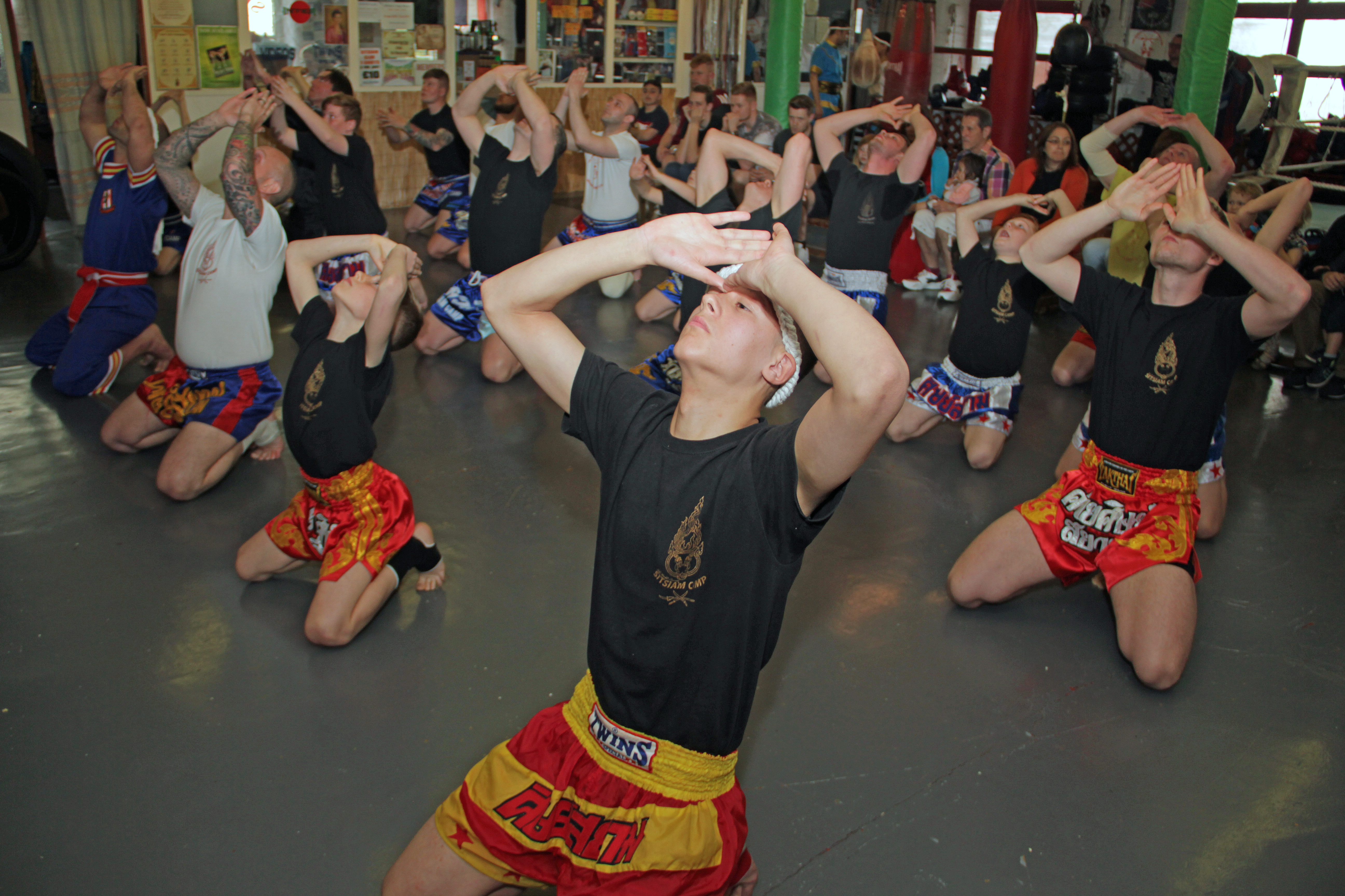 Thai boxers performing ritual dance at the Sitsiam camp